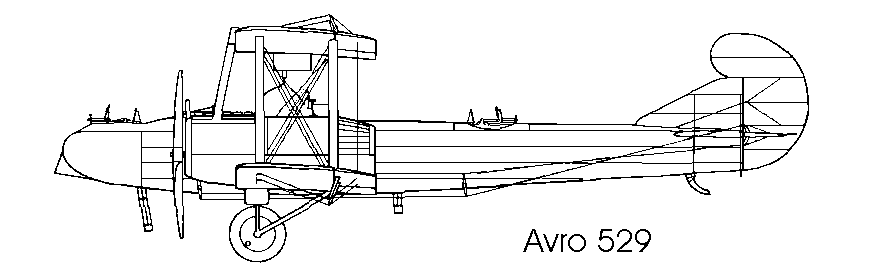 Avro 529 - plane Drawing left side